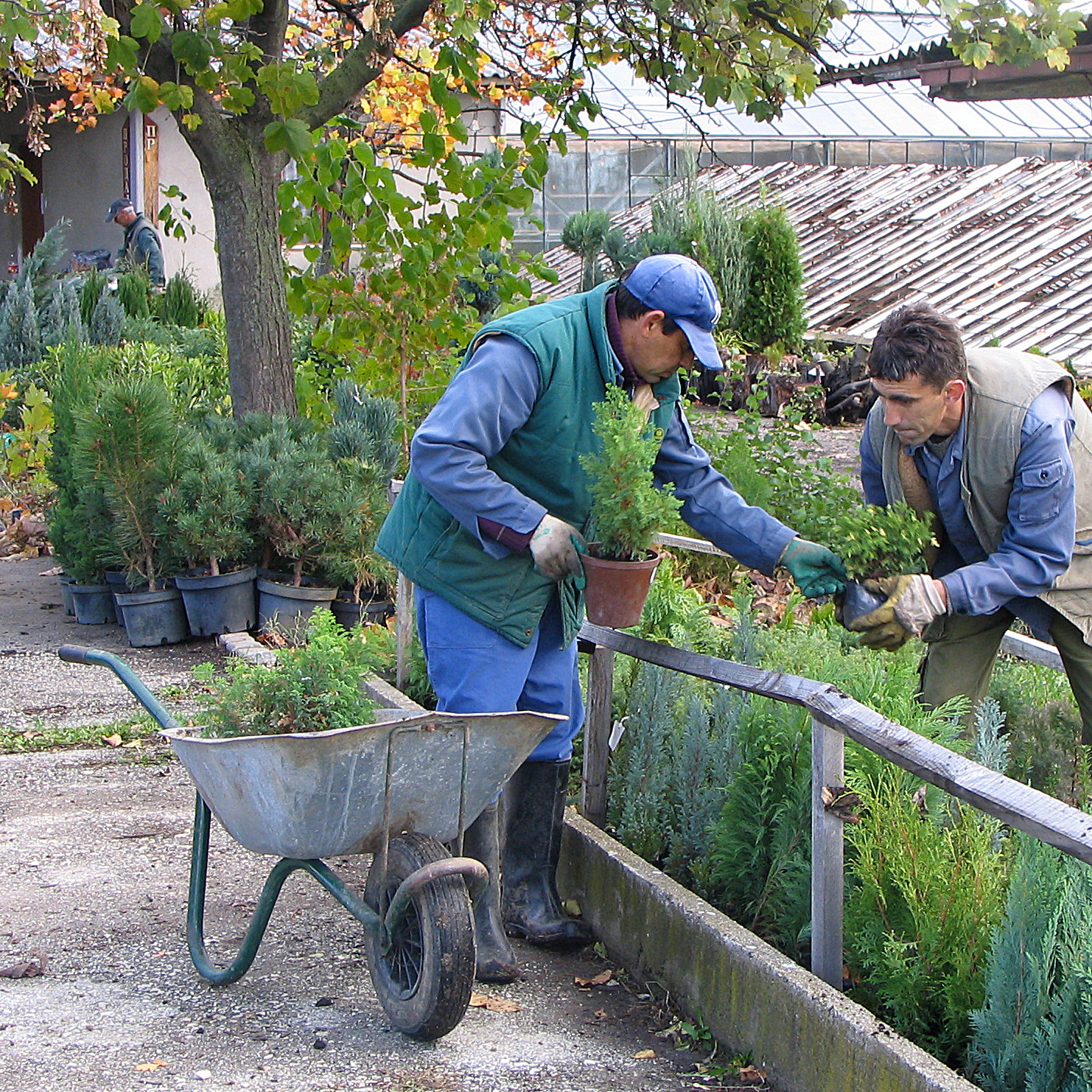 Wheelbarrow, Tree nursery, Kragujevac